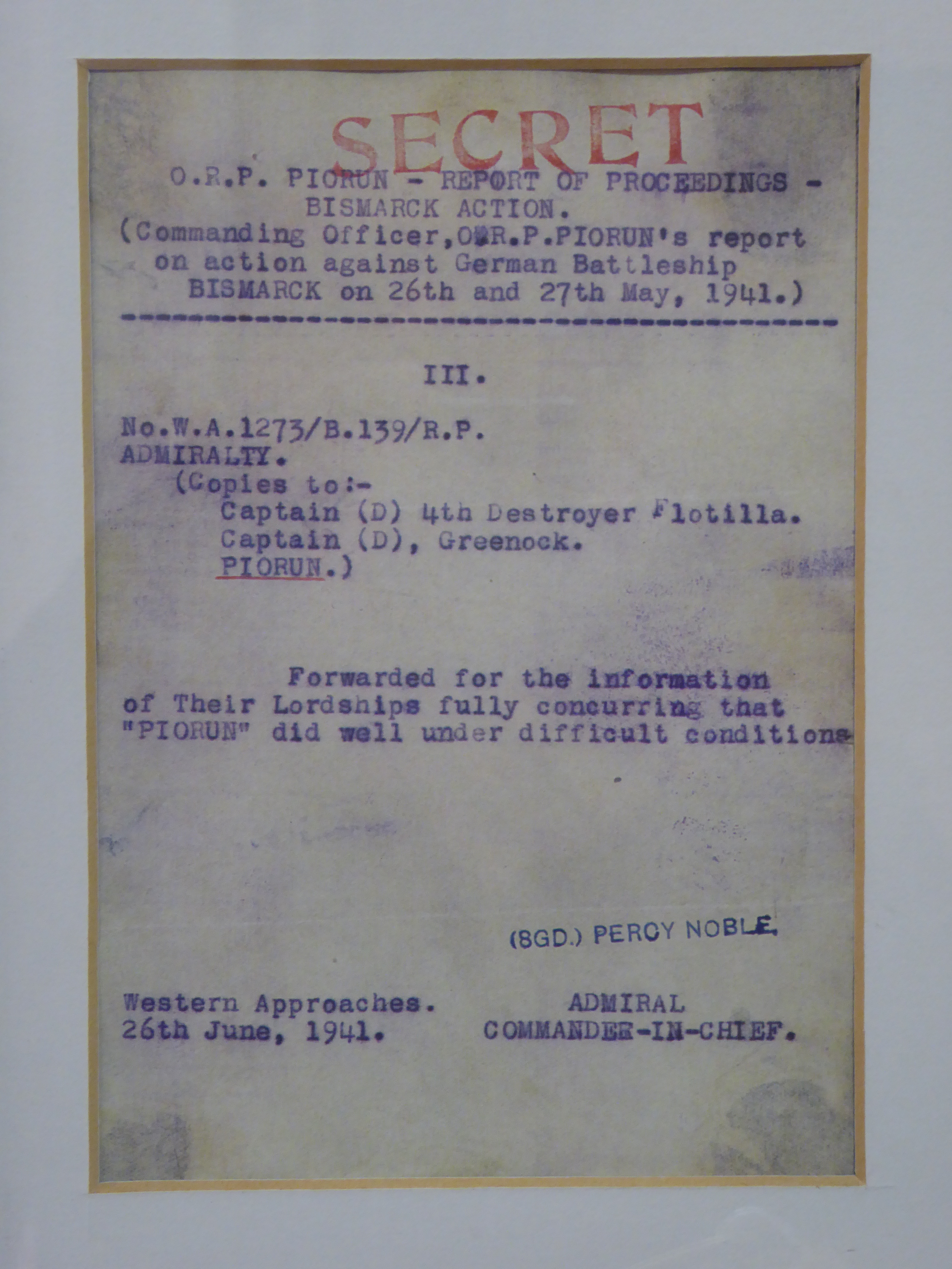 The Polish destroyer Piorun ("Thunderbolt") took part, along with several British destroyers, in the search for the German battleship Bismarck in May 1941. Piorun was the first of the destroyers to spot the German ship and exchanged fire with Bismarck for half an hour the night before it was sunk. Piorun's captain, Eugeniusz Pławski, transmitted the message "I am Polish" prior to opening fire....